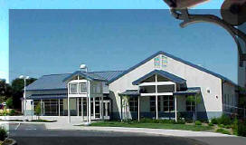 Main office of Eureka Union School District